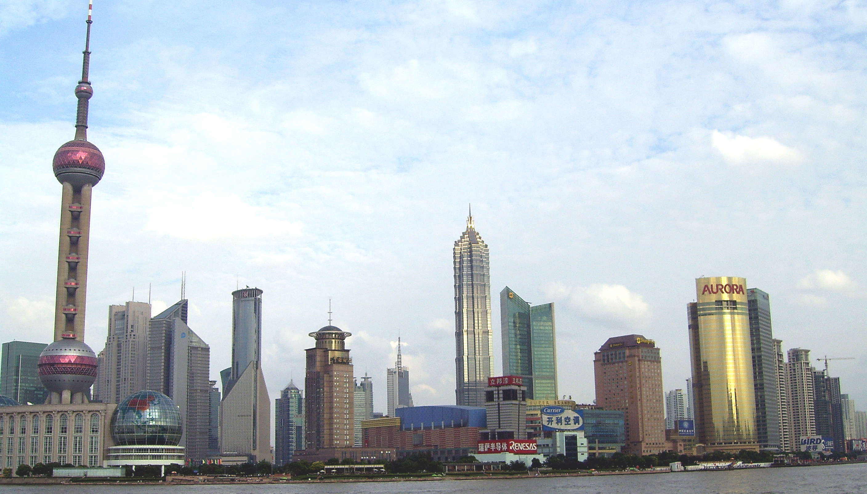 从上海外滩隔江望浦东建筑群 Looking at Pudong buildings from the Bund in Shanghai